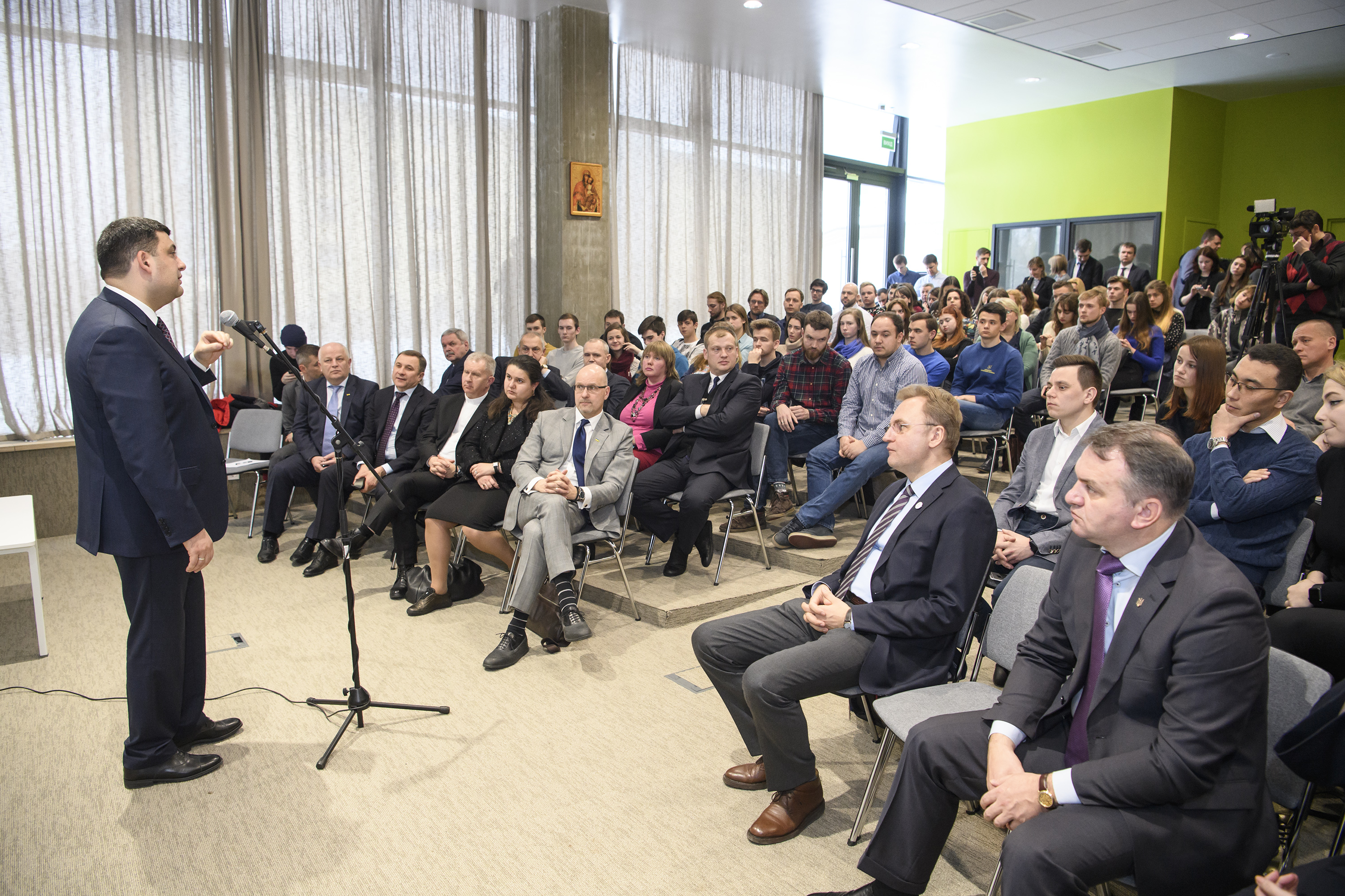 Володимир Гройсман відвідав Український католицький університет, де поспілкувався зі студентами та професорсько-викладацьким складом